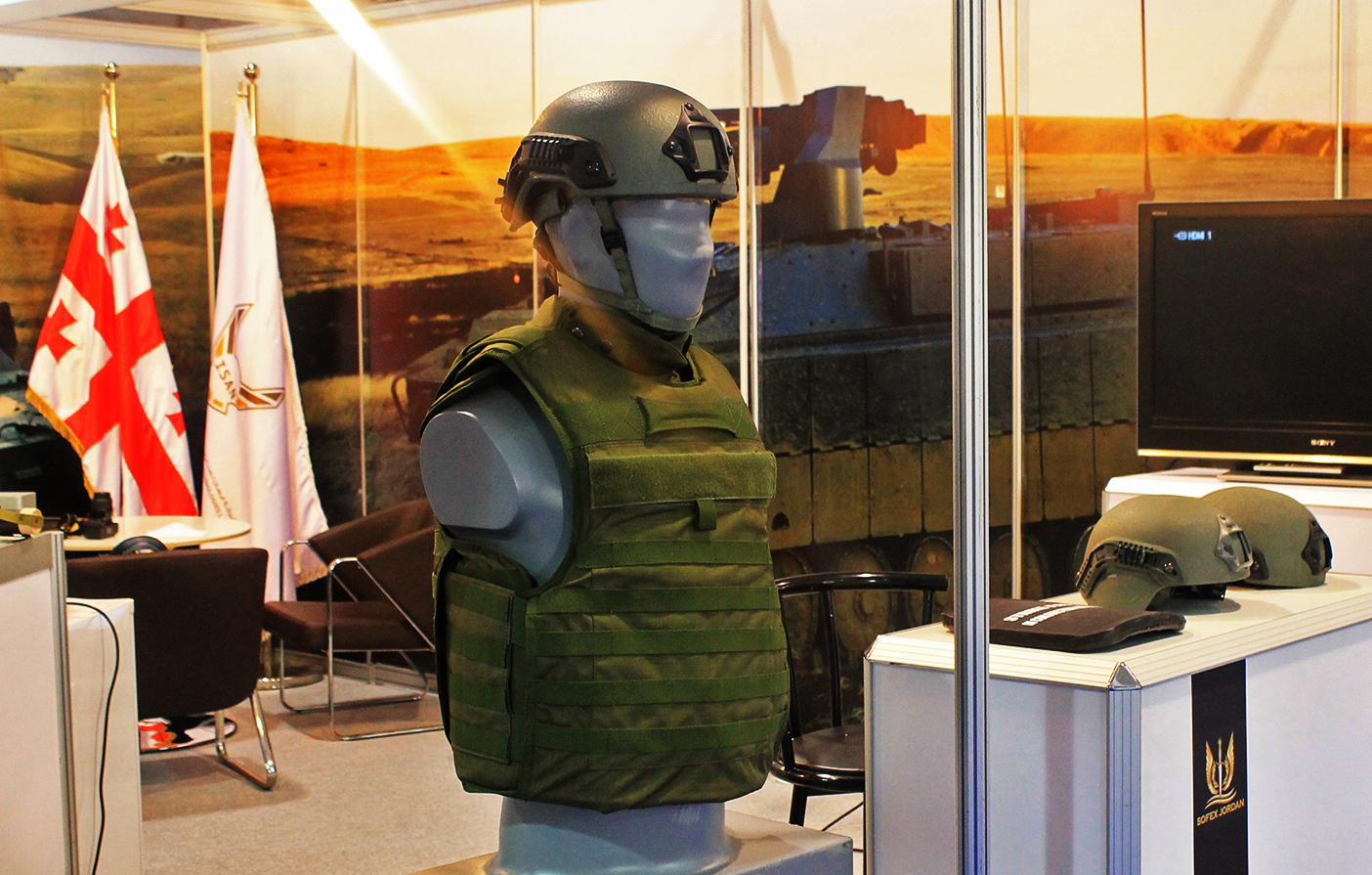 STC Delta at SOFEX 2014 Exhibition